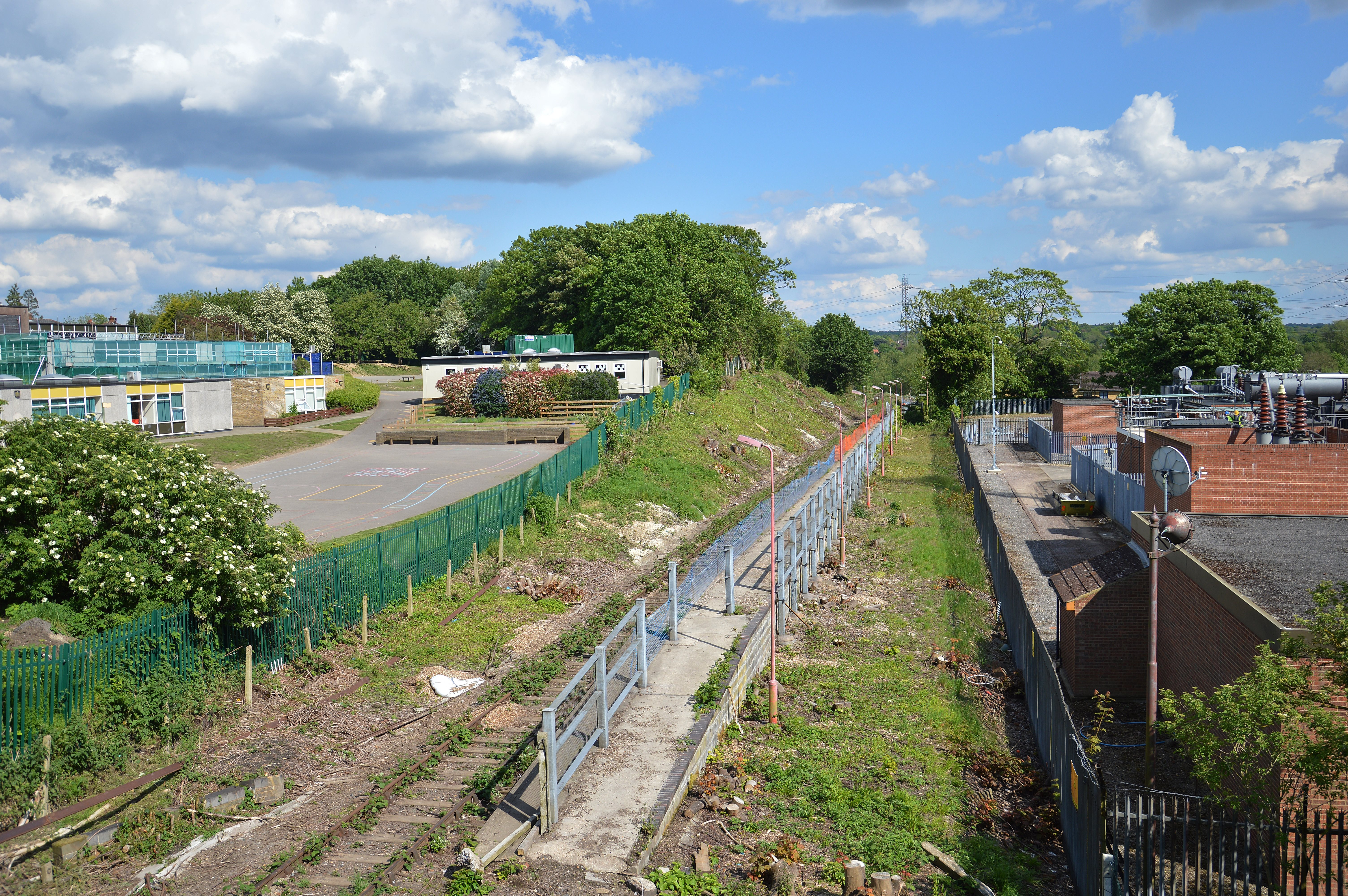 Watford Stadium May2014